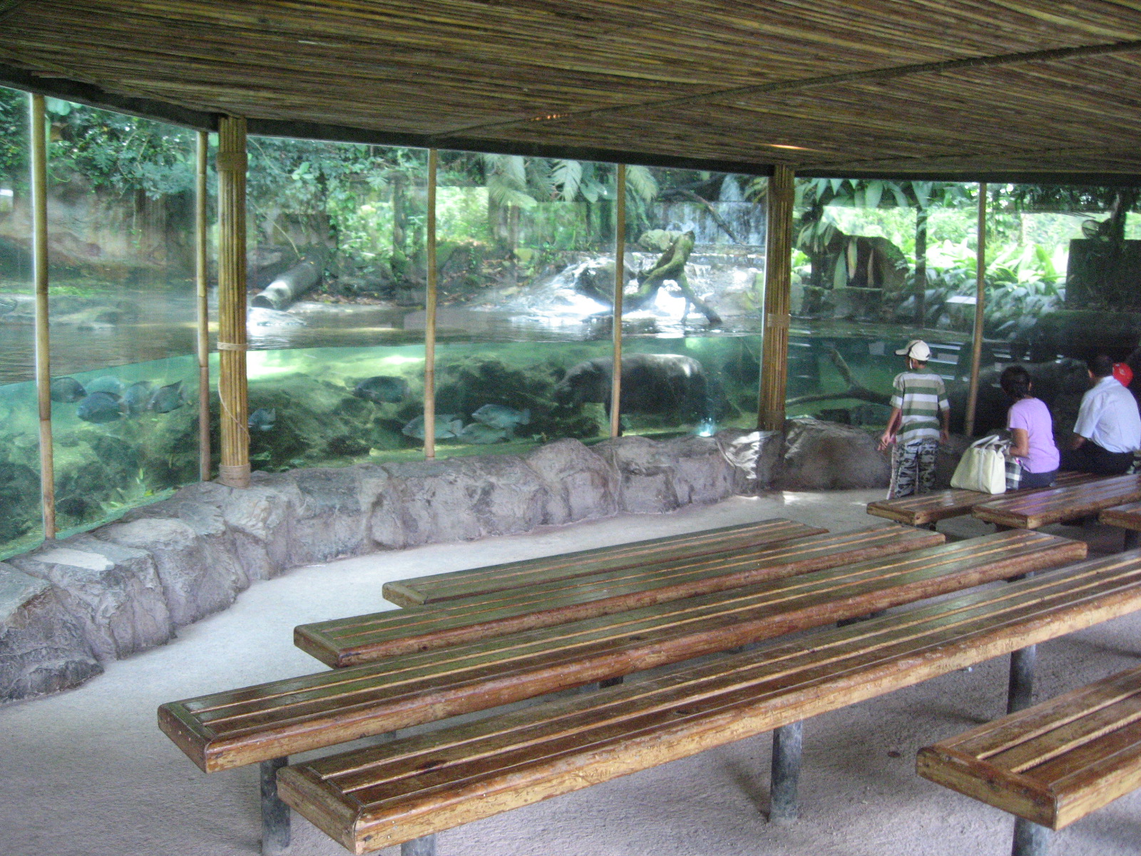 The viewing gallery for the Pygmy Hippopotamus (Choeropsis liberiensis) at Singapore Zoo. Taken by Terence Ong in November 2006.